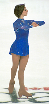 Sarah Hughes competes her long program at the 2001 Grand Prix Final in Kitchener, Ontario.